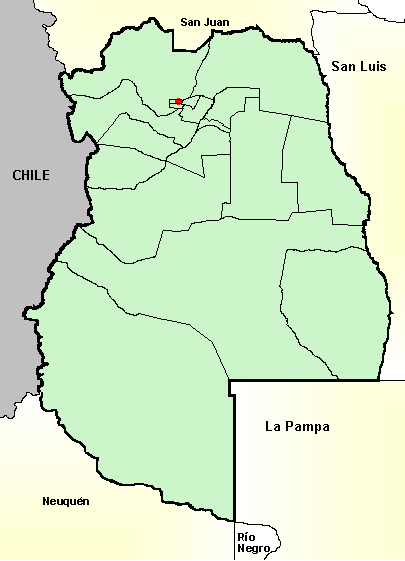 It shows Mendoza province in Argentina, its administrative boundaries and its capital.